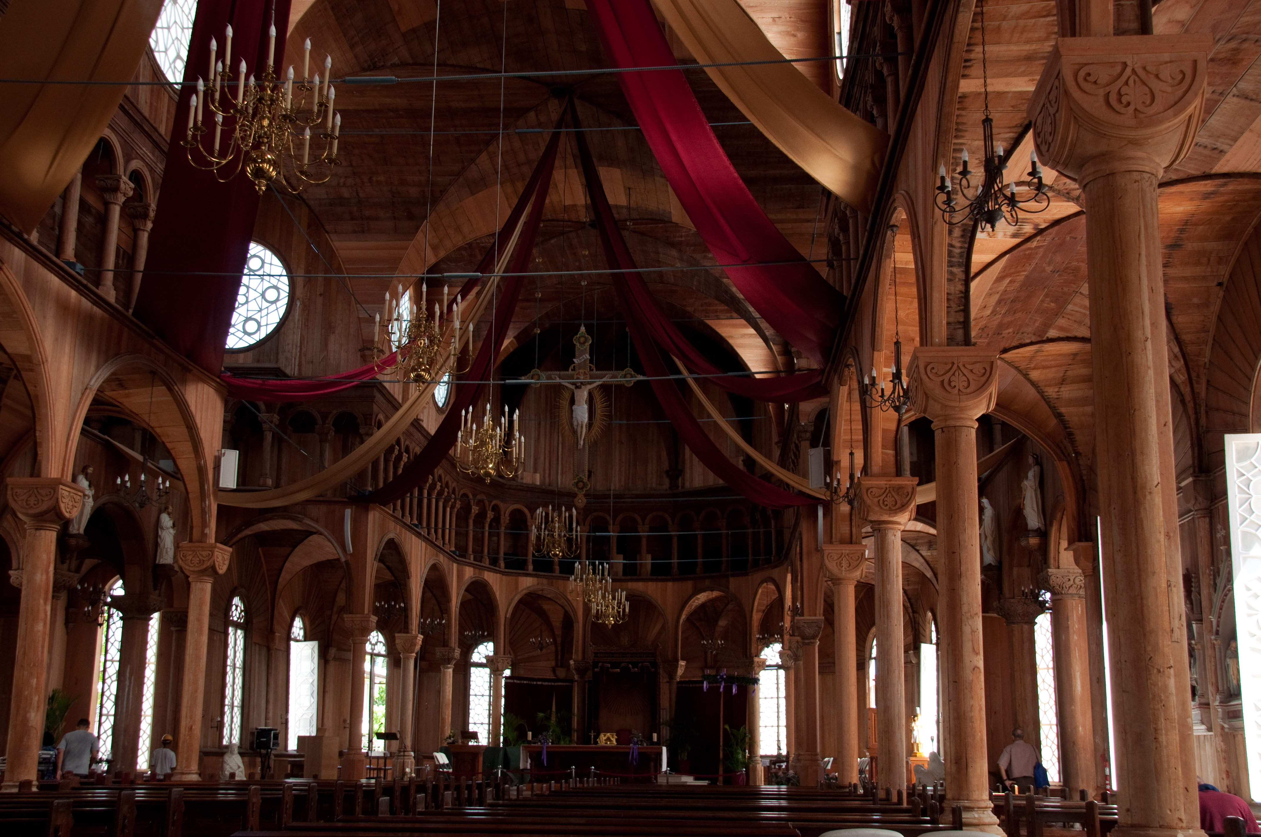 St Petrus en Paulus kathedraal Paramaribo, Suriname. Interior of the comple wood-built kathedral in Paramaribo.